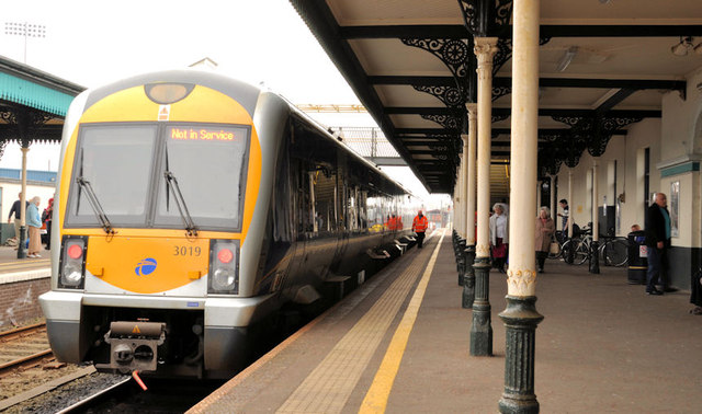 Portrush train, Coleraine (2). The 14.15 Portrush � Coleraine on arrival at Coleraine where most of the passengers transferred to the connecting 13.51 Londonderry � Belfast Gt Victoria Street.